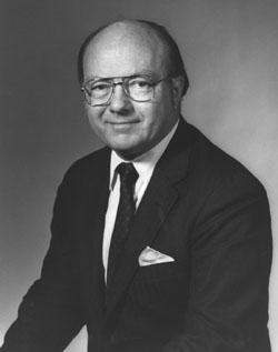 Jack F Matlock, Jr., U.S. Ambassador to USSR and Czechoslovakia